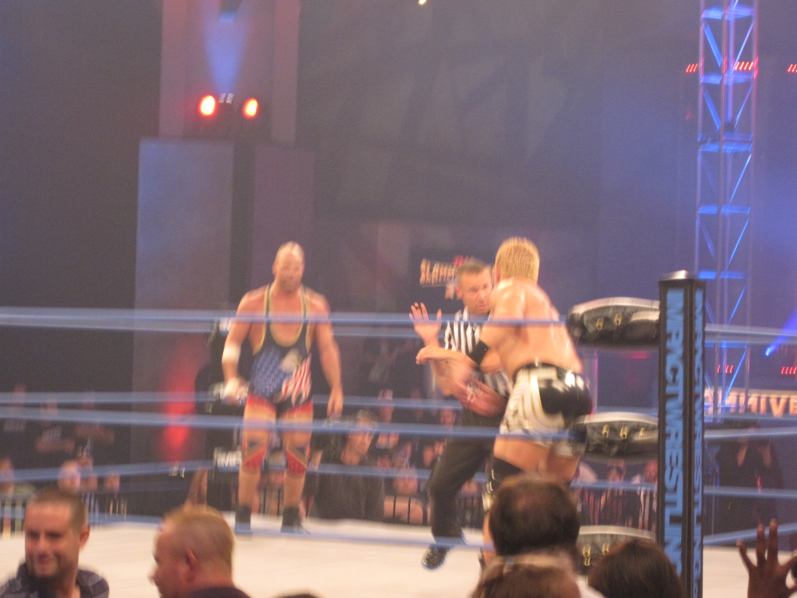 Sunday, June 12, 2011. Universal Orlando